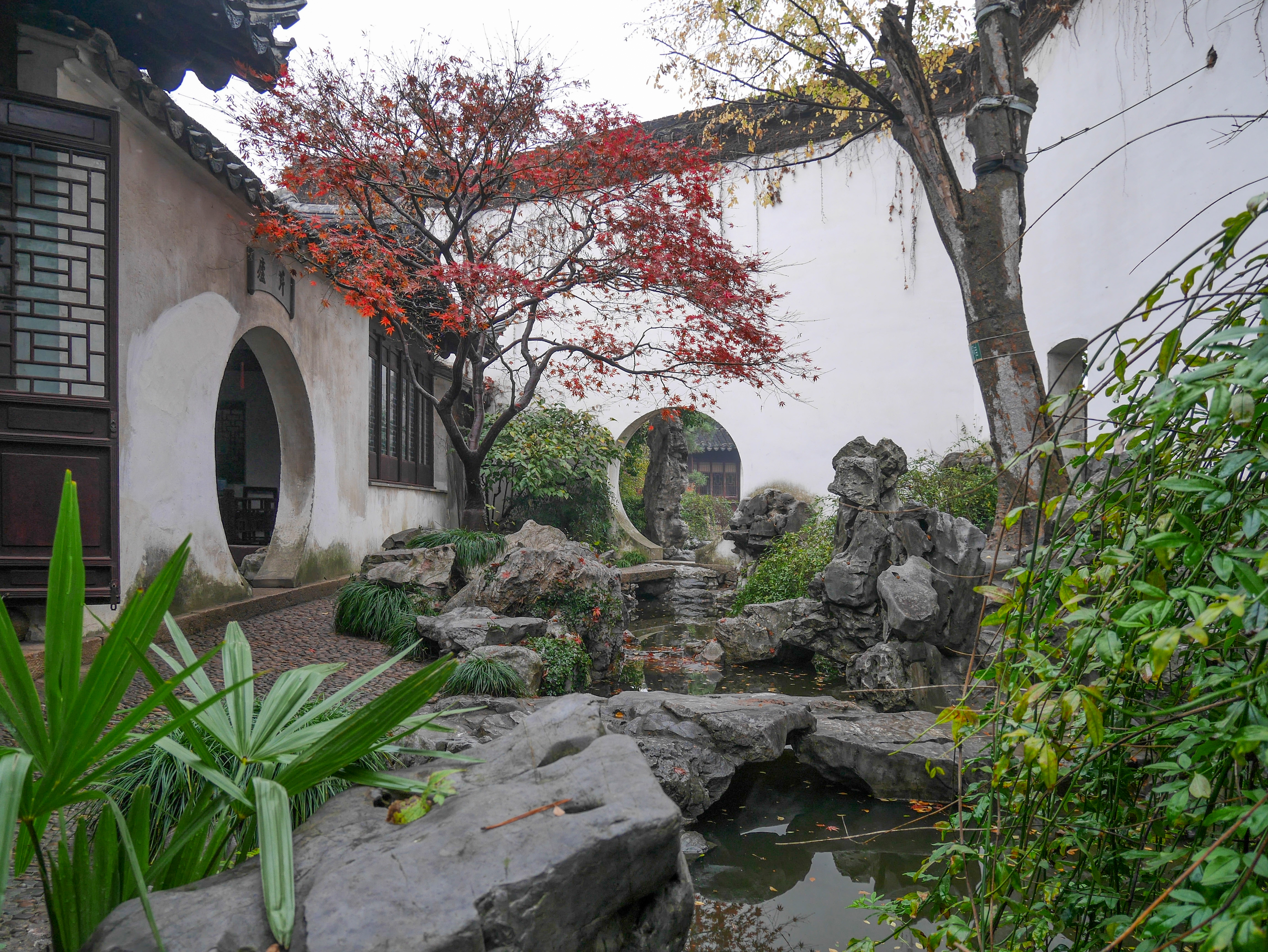 Ravine and moon gate in the Southwestern part of Suzhou's Garden of Cultivation